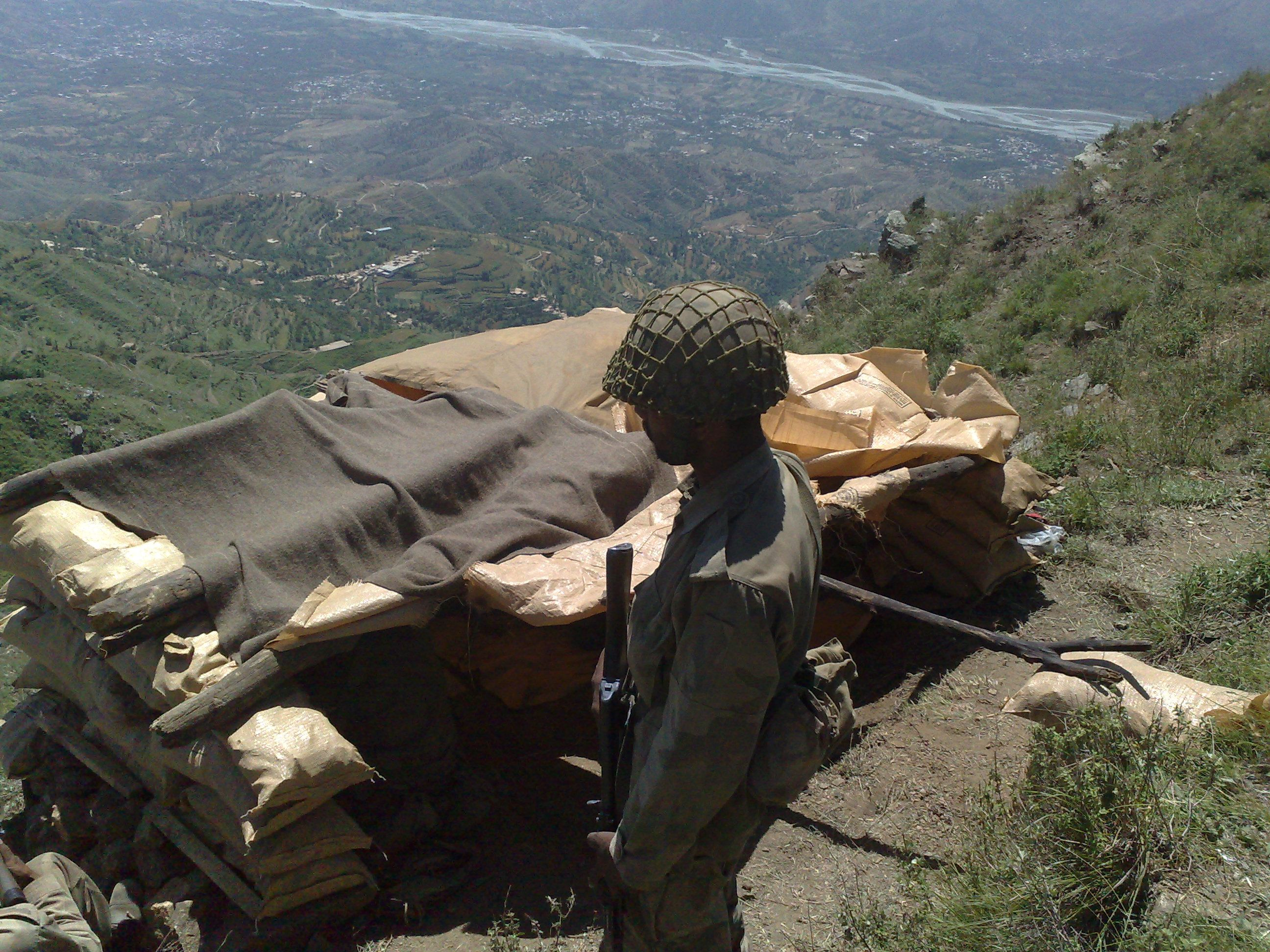 Pakistan's military is carrying out an ongoing operation aginst Taliban fighters in the country's northwest. Here a view over the swat valley from the emplacement.